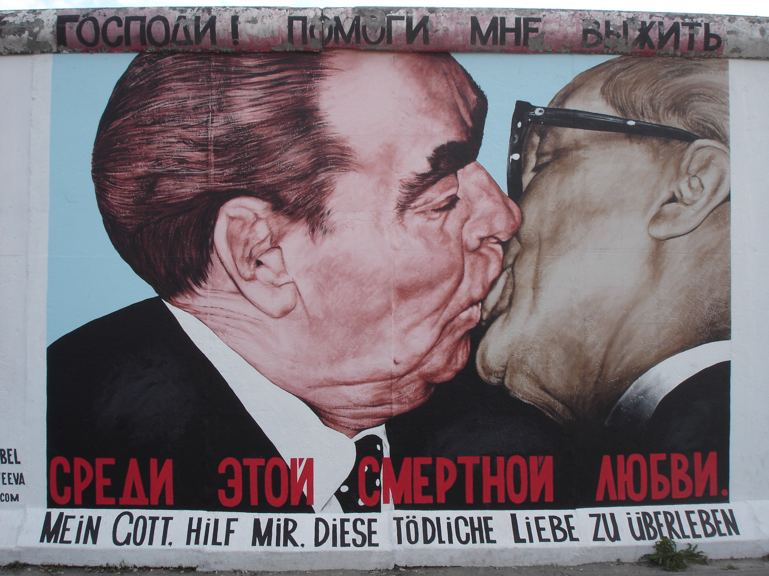 Graffiti on East Side Gallery - Berlin